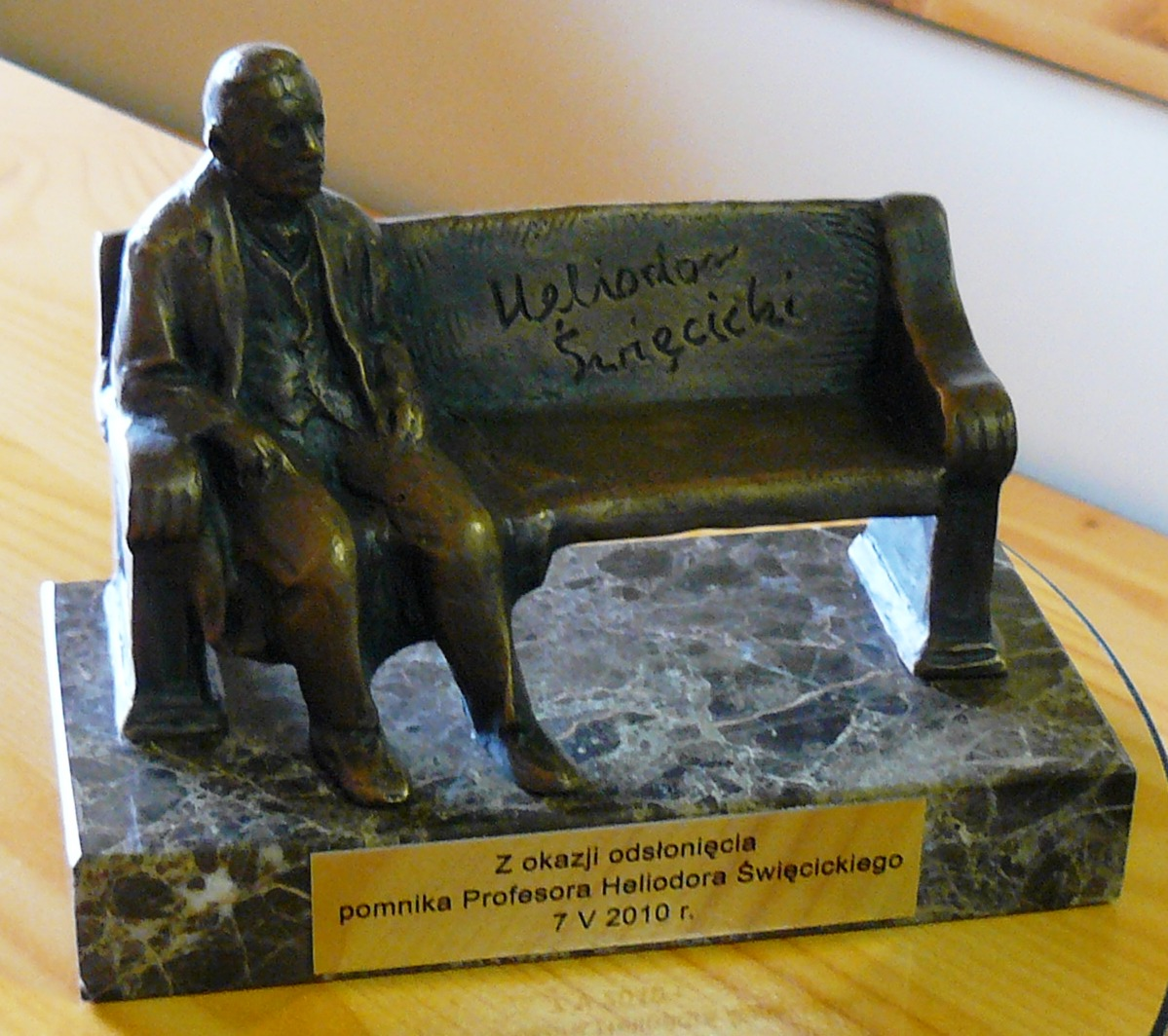 Heliodor Swiecicki Bench - mini monument in Poznan.